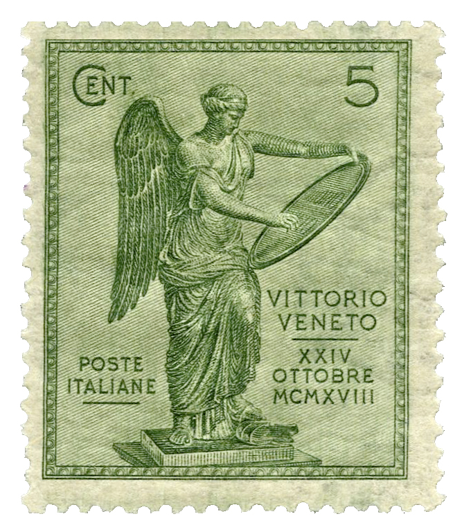 Postage stamp, Republic of Italy, 1921: The Battle of Vittorio Veneto (1918).